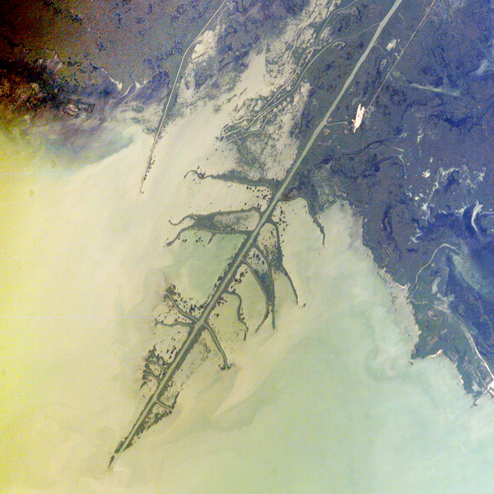 Ural River Delta, Kazakhstan - a typical "digitate delta"